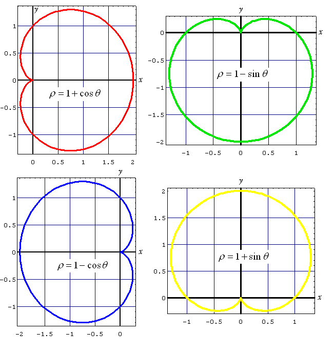 A set of four cardioids, oriented in the four cardinal directions, with their respective equations.